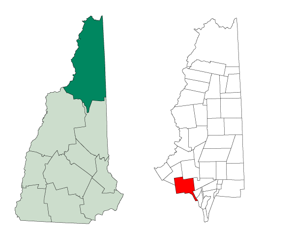 Map of a municipality in Coos County, New Hampshire